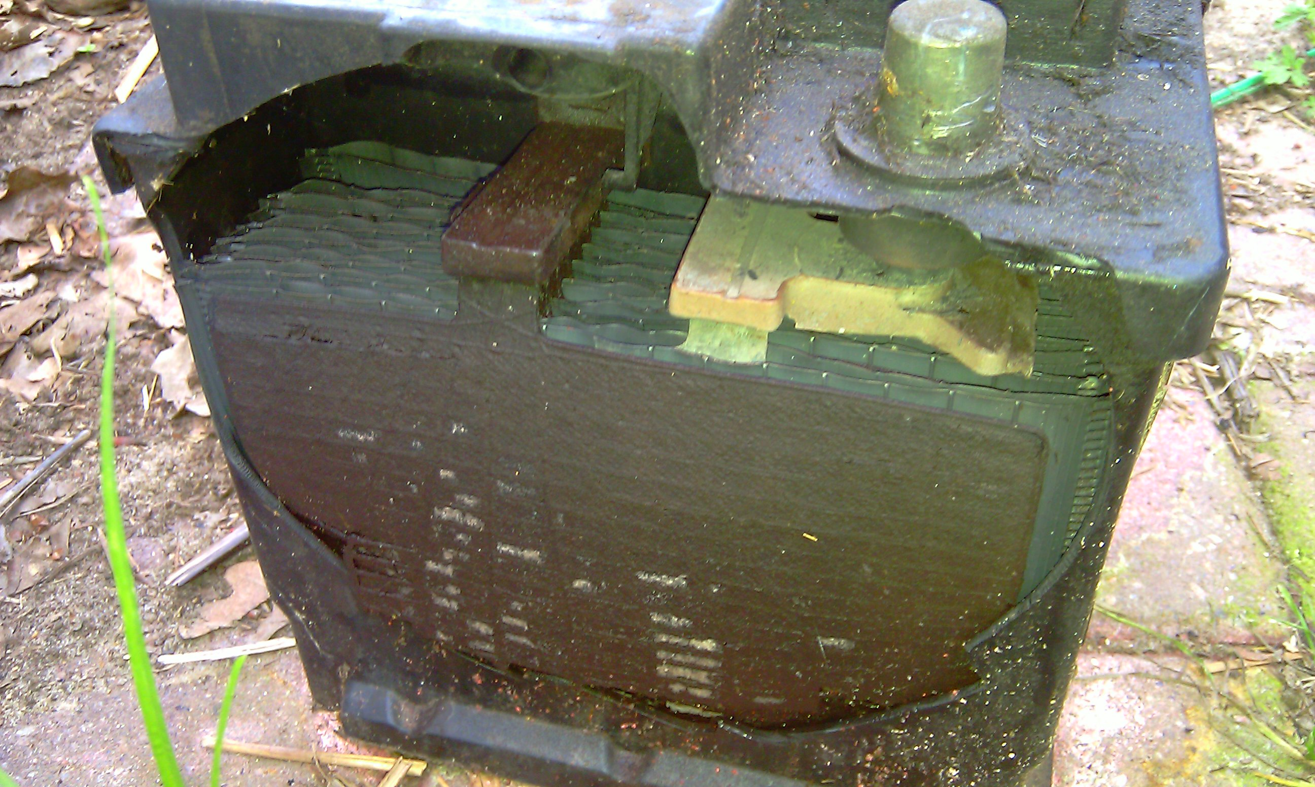 View on the interior of a exploded car battery